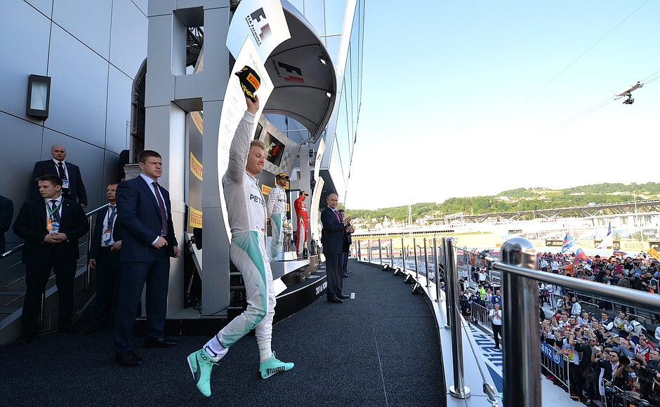 Podium ceremony at the 2016 Russian Grand Prix